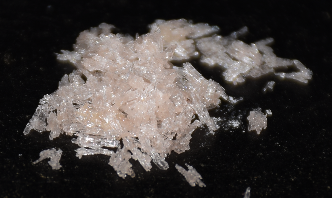 Crystals of p-toluenesulfonic acid monohydrate, slightly pink due to common impurities